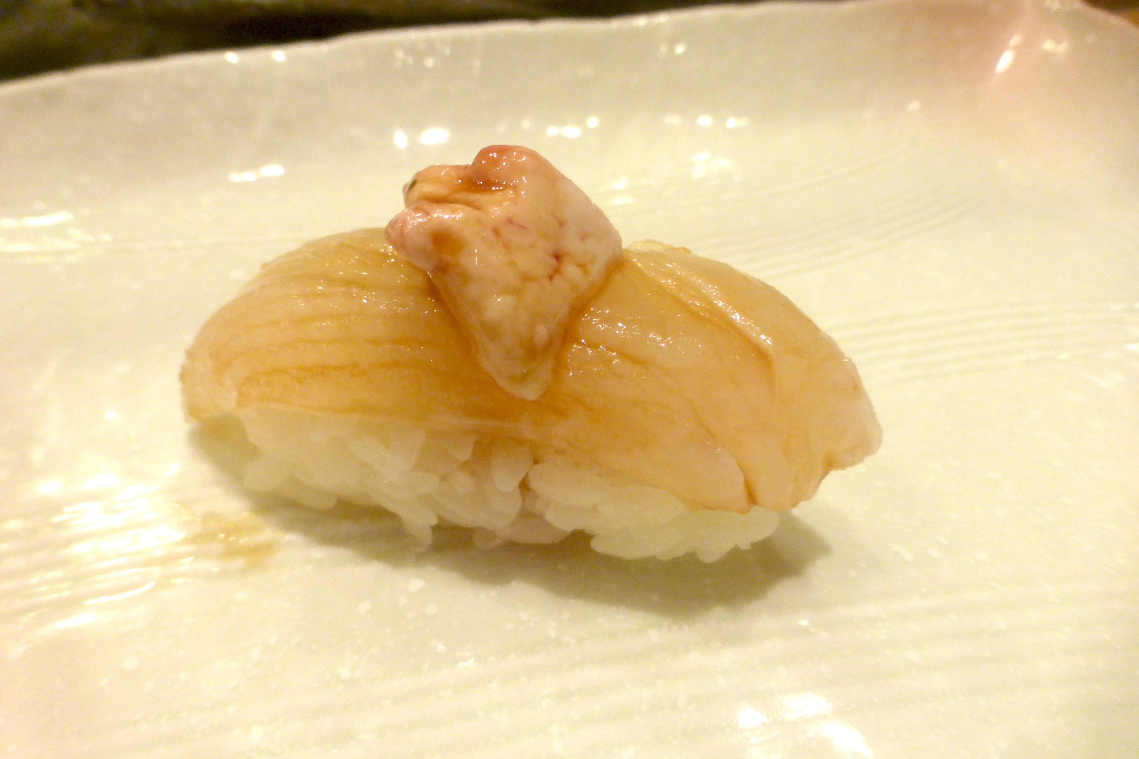 カワハギ（皮剥・鮍・英名 Thread-sail filefish・学名 Stephanolepis cirrhifer）